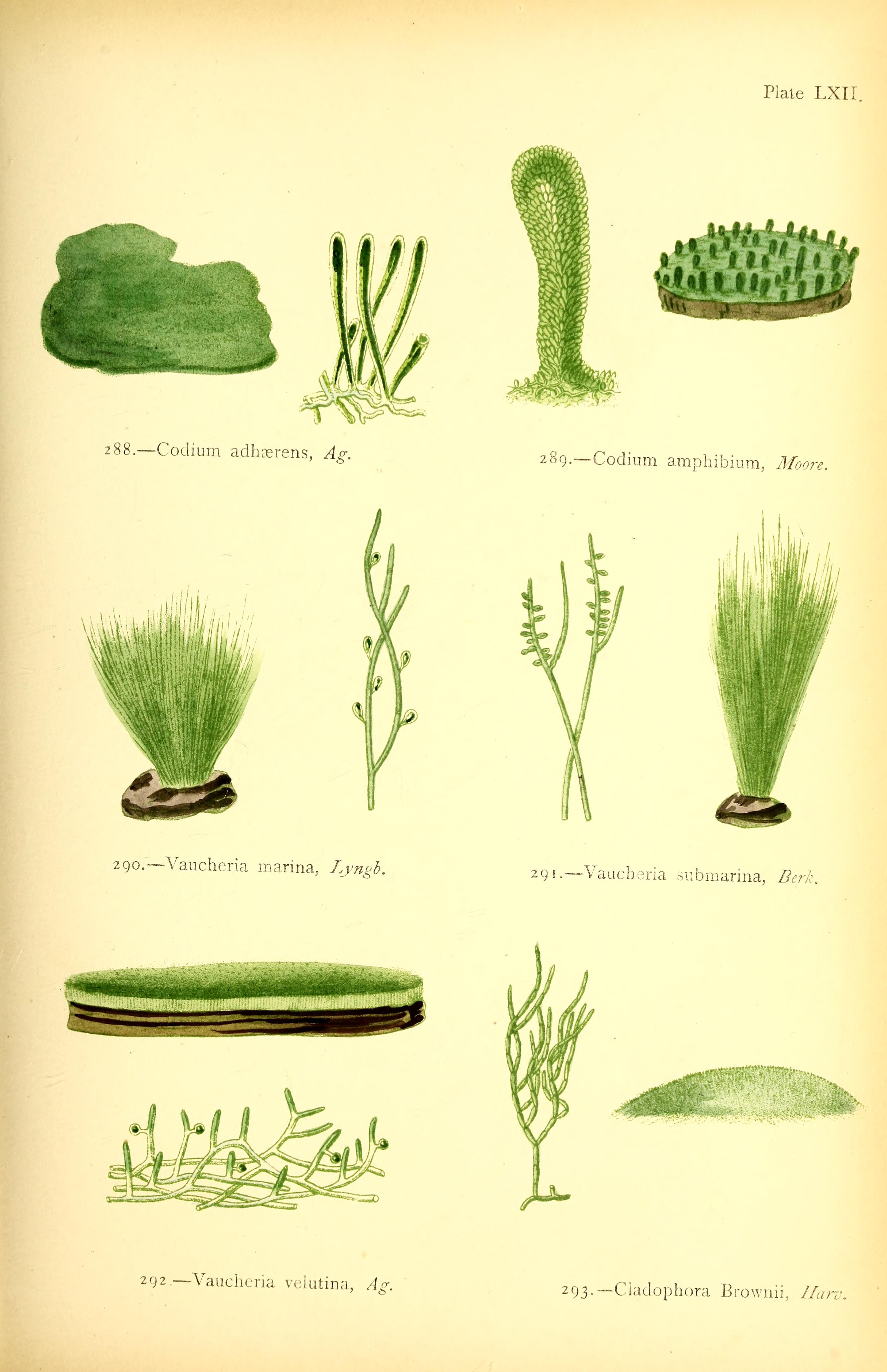 Title: British sea-weeds : drawn from Professor Harvey's "Phycologia Britannica" ... Year: 1872 (1870s) Authors: Gatty, Alfred, Mrs. , 1809-1873; Harvey, William H. (William Henry), 1811-1866. Phycologia britannica Subjects: Marine algae Publisher: London : Bell and Daldy Text Appearing Before Image: ' Text Appearing After Image: 2 92 —Vaiiclicria vclutina, Ajz. 293.—Cladophora Brownii, /L/rz'